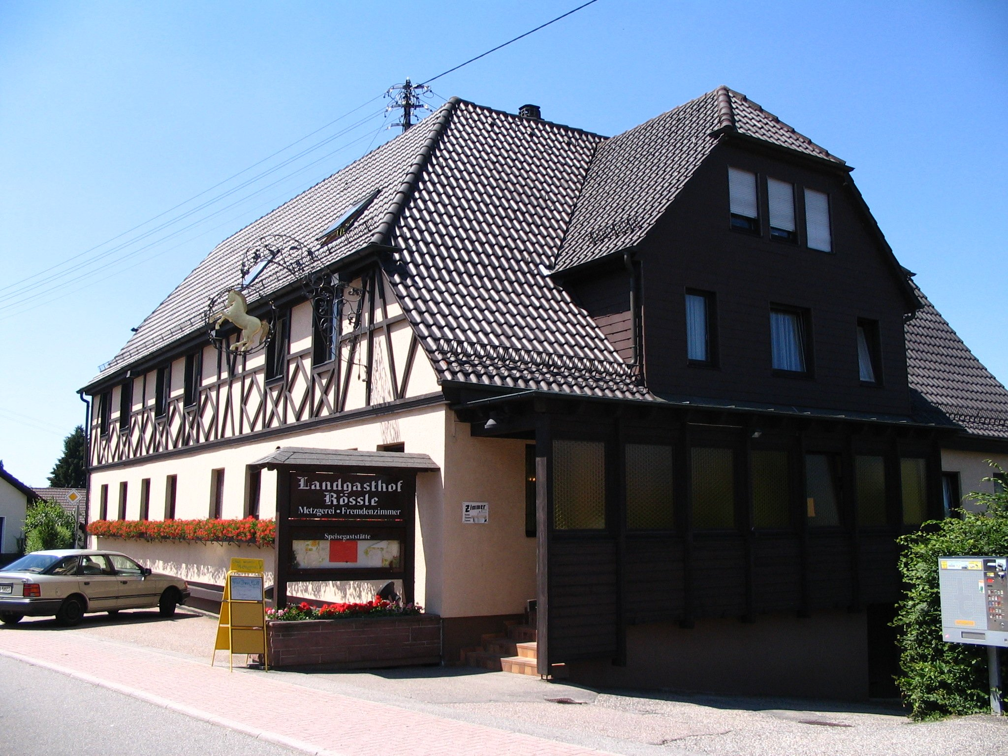 Landgasthof Rössle (a guest house) in Straubenhardt, Germany